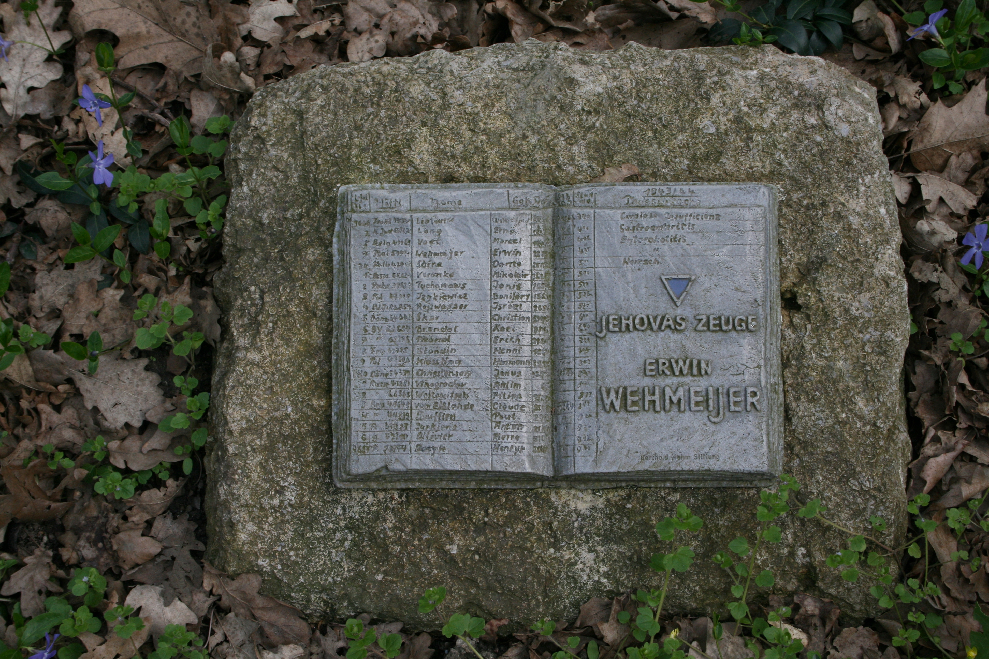 Memorial for Erwin Wehmeijer, member of Jehova's Witnesses in the Neuengamme concentration camp, a victim of Nazism, who died in December 1944